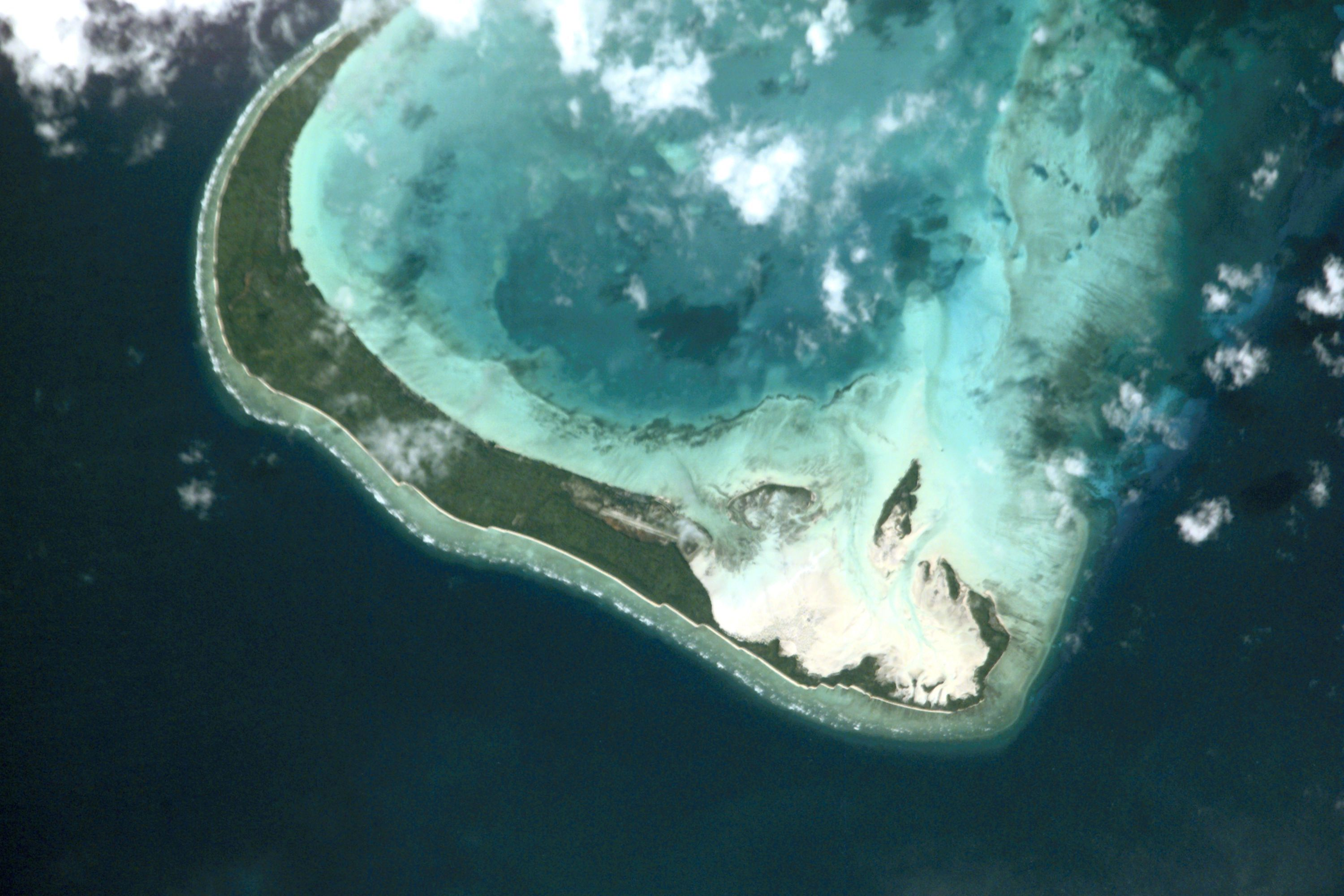 Namorik Atoll, Main Island Namorik